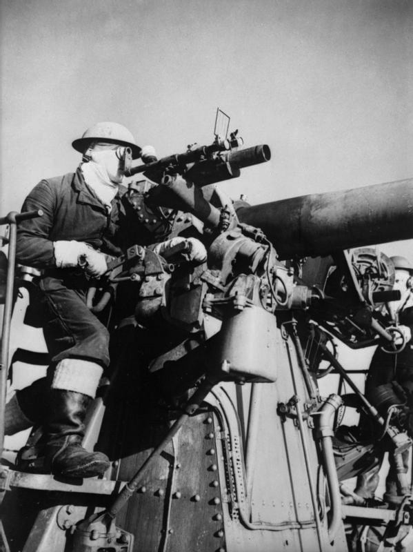 IWM caption : "The guntrainer at the sights of his 4 inch Quick Fire (QF) Mark V gun on High Angle (HA) Mark III mounting aboard HMS HAZARD." Comment : HMS Hazard was a Halcyon class minesweeper.